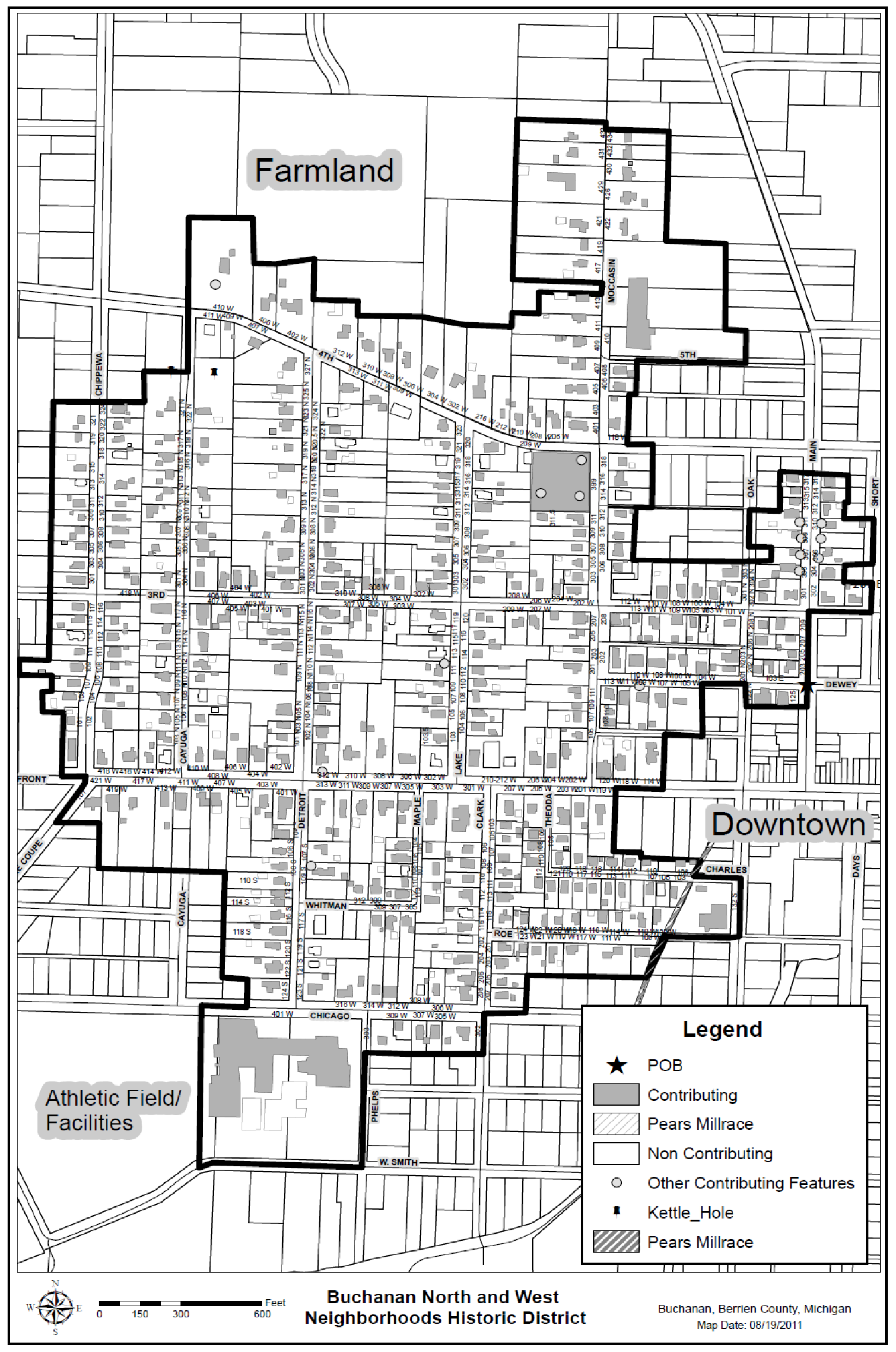 A black and white street map of a portion of Buchanan, Mich. with district boundaries shown.